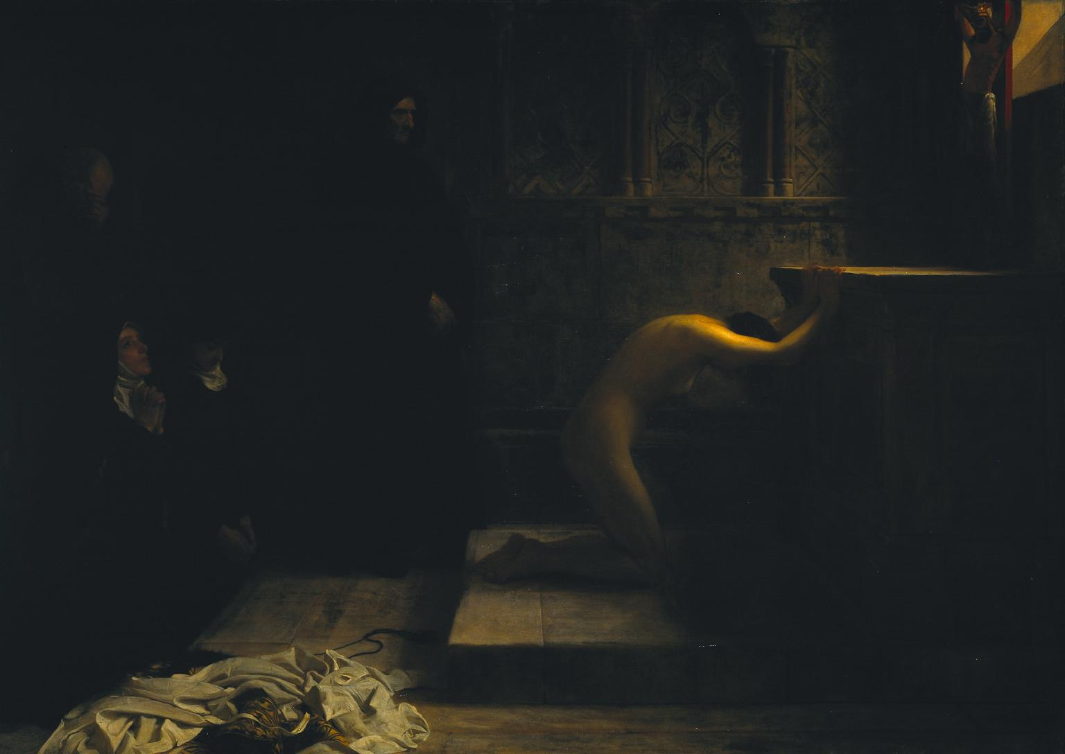 The original title was St Elizabeth of Hungary and the picture was intended to represent an episode in the life of that saint. Calderon based his idea Charles Kingsley's poem "The Saint's Tragedy".